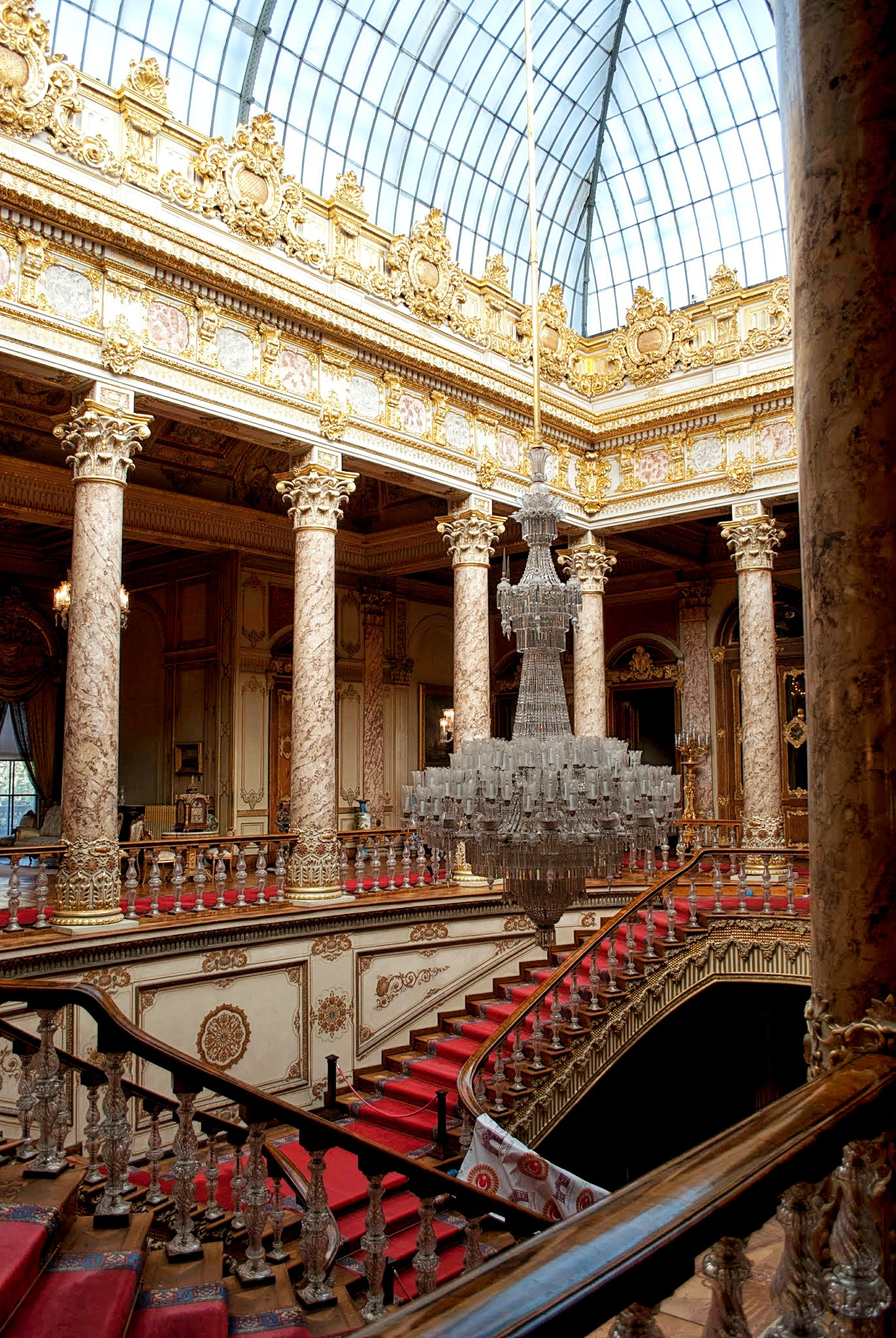 500px provided description: Dolmabahce [#travel ,#light ,#buildings ,#house ,#istanbul ,#outdoor ,#architecture ,#building ,#history ,#exposition ,#trip ,#photography ,#student ,#indoor ,#pasha ,#erasmus ,#sultan ,#follow ,#resident ,#Dolmabahce]